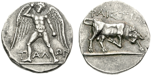 Greek coin from CRETE, Phaistos Greek coin depicting Talos / bull